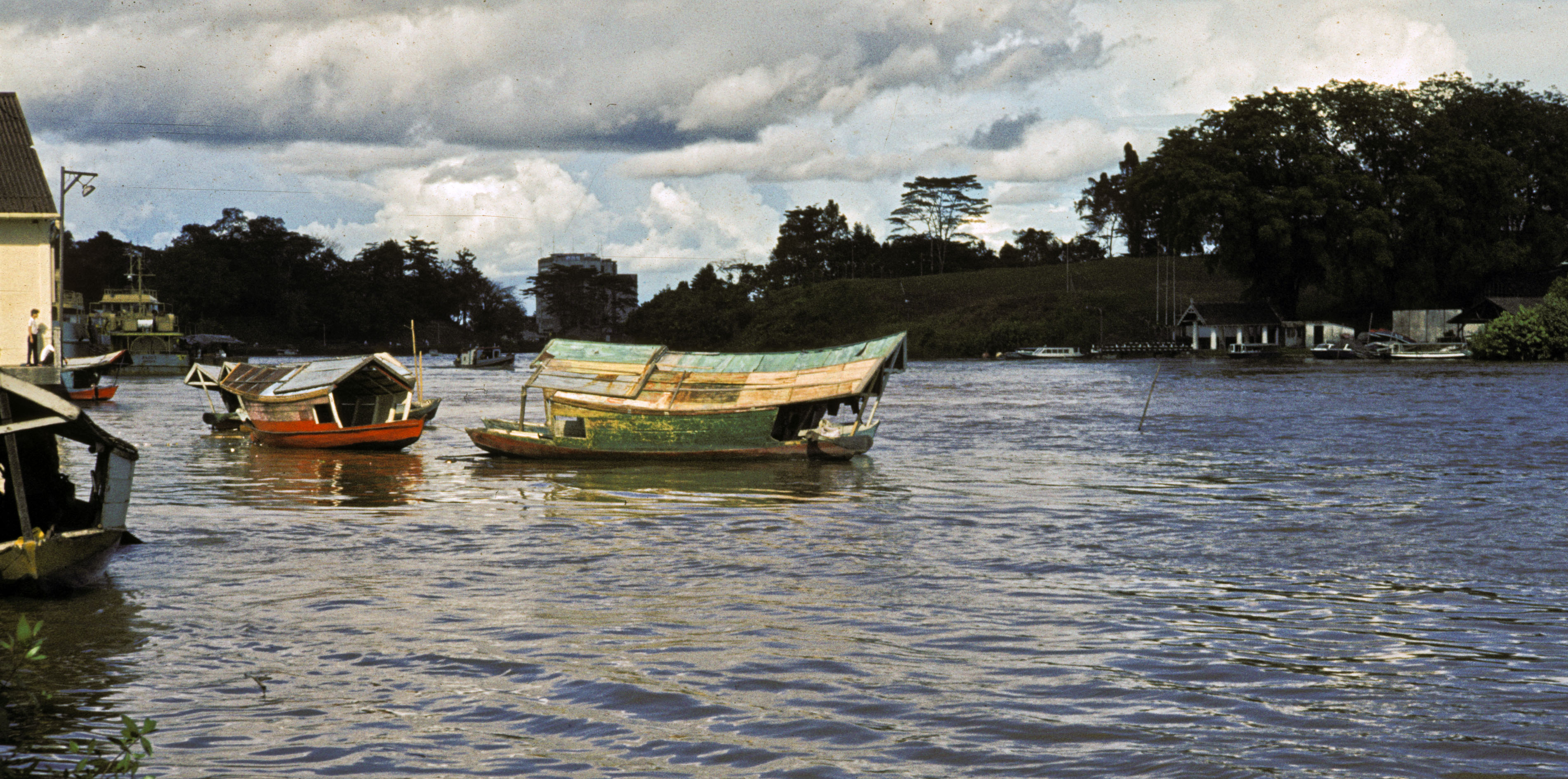 Image from Borneo in 1981; locality details unknown